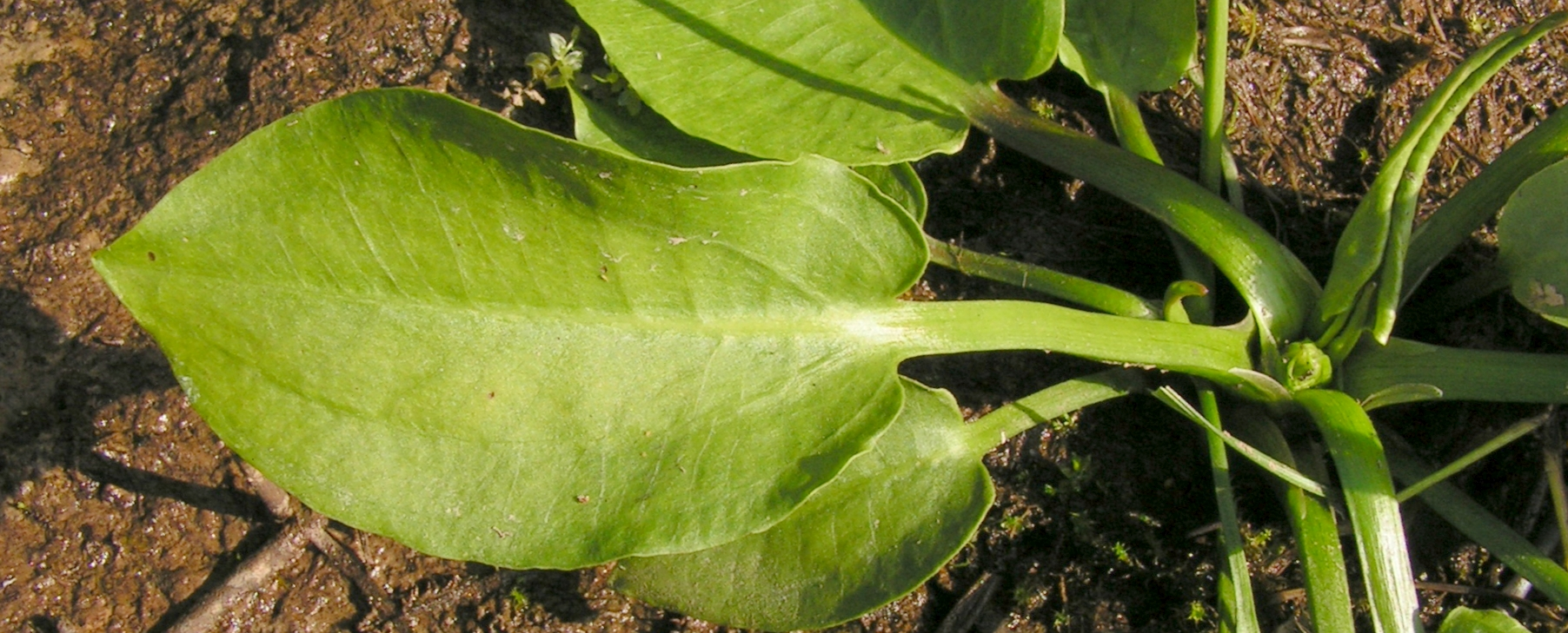 The leaf of Alisma plantago-aquatica. Moscow region, Russia.